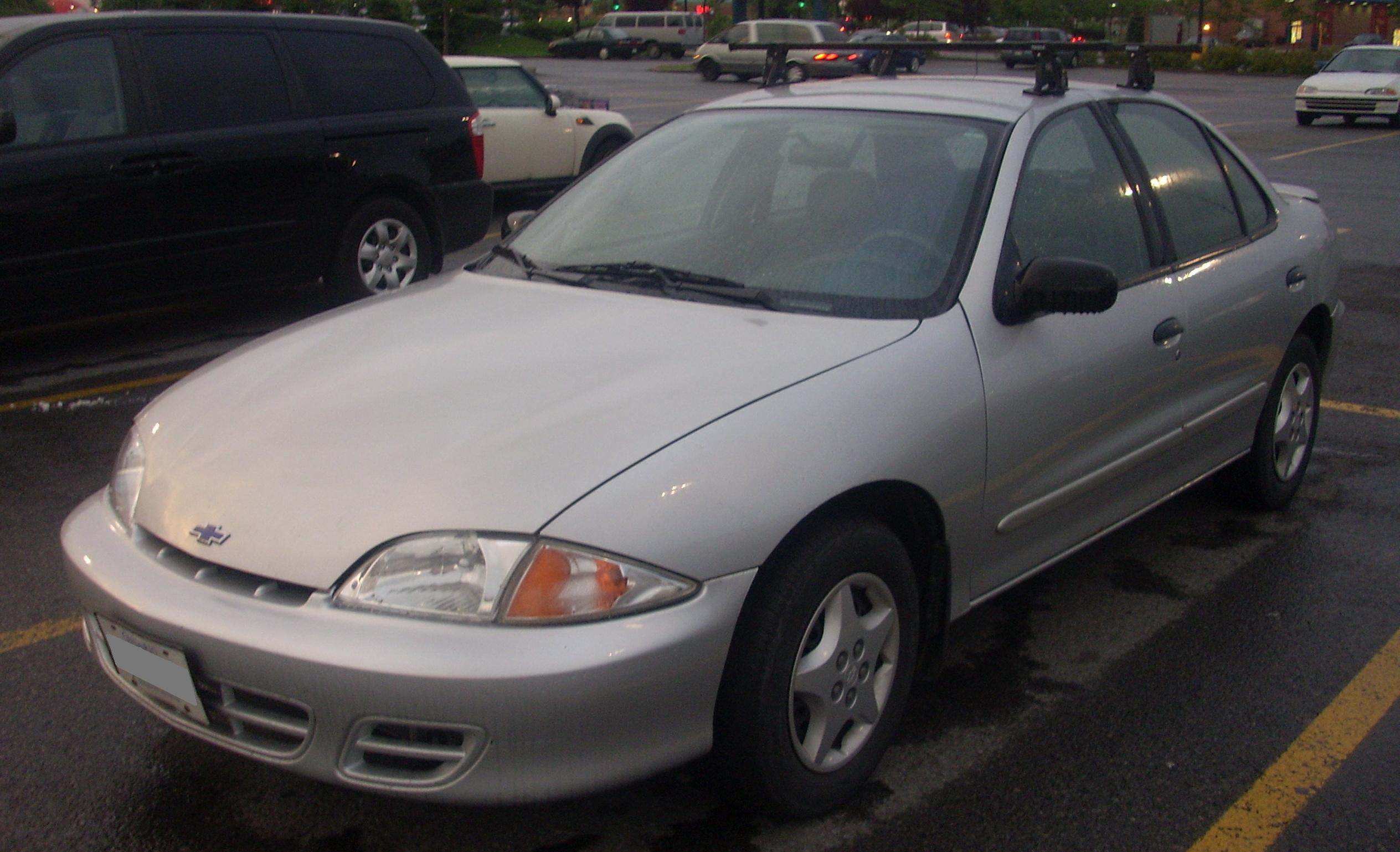 2000-2002 Chevrolet Cavalier photographed in Montreal, Quebec, Canada.